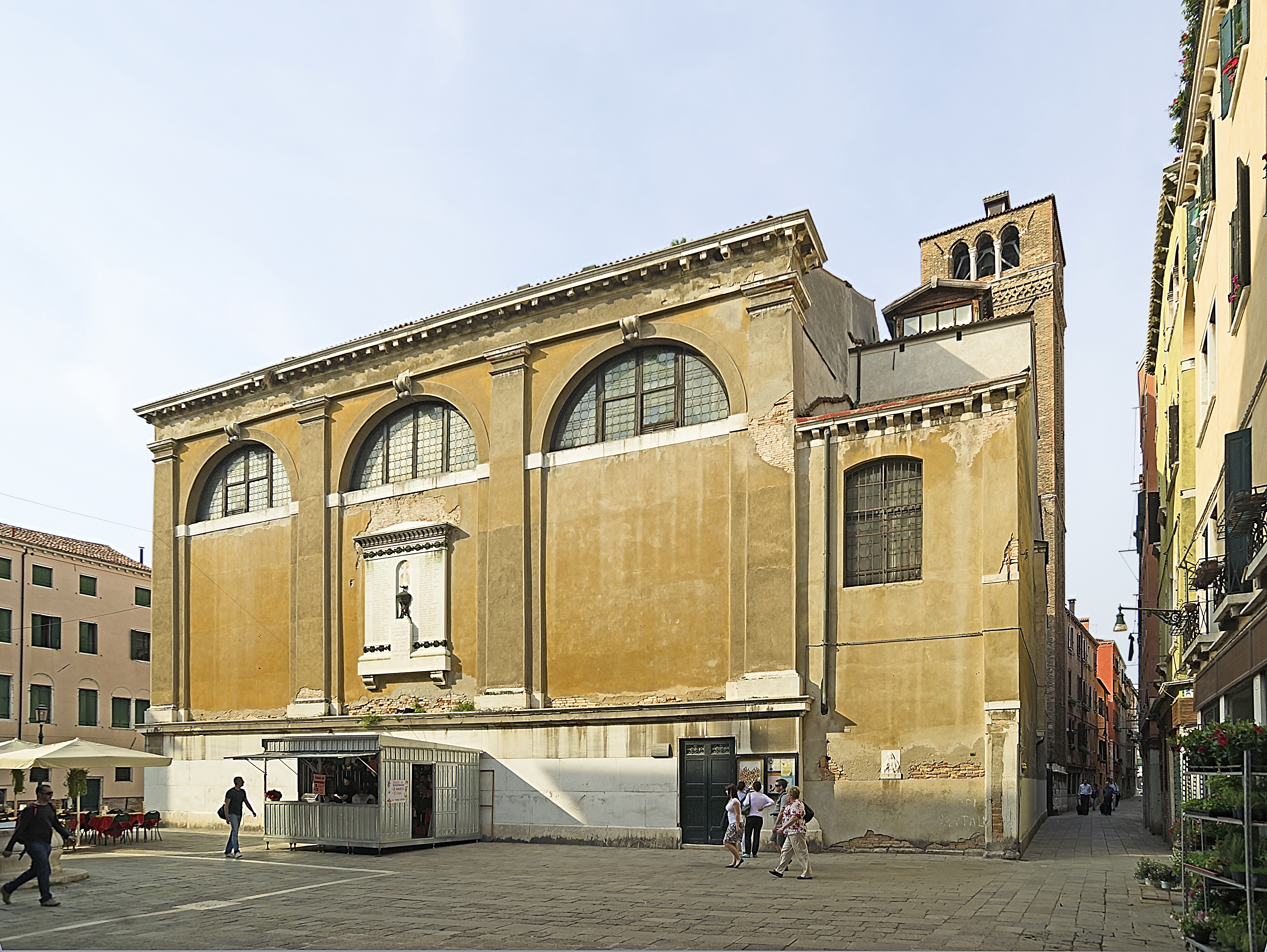 Church of San Cassiano on the eponymous campo Venice.